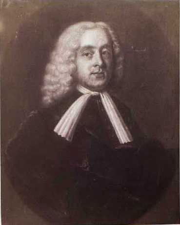 Christian Falster (01.Jan.1690-24.Oct.1752)